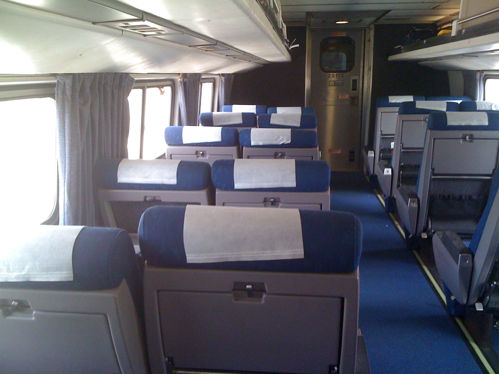 Amtrak Amfleet passenger coach interior view.